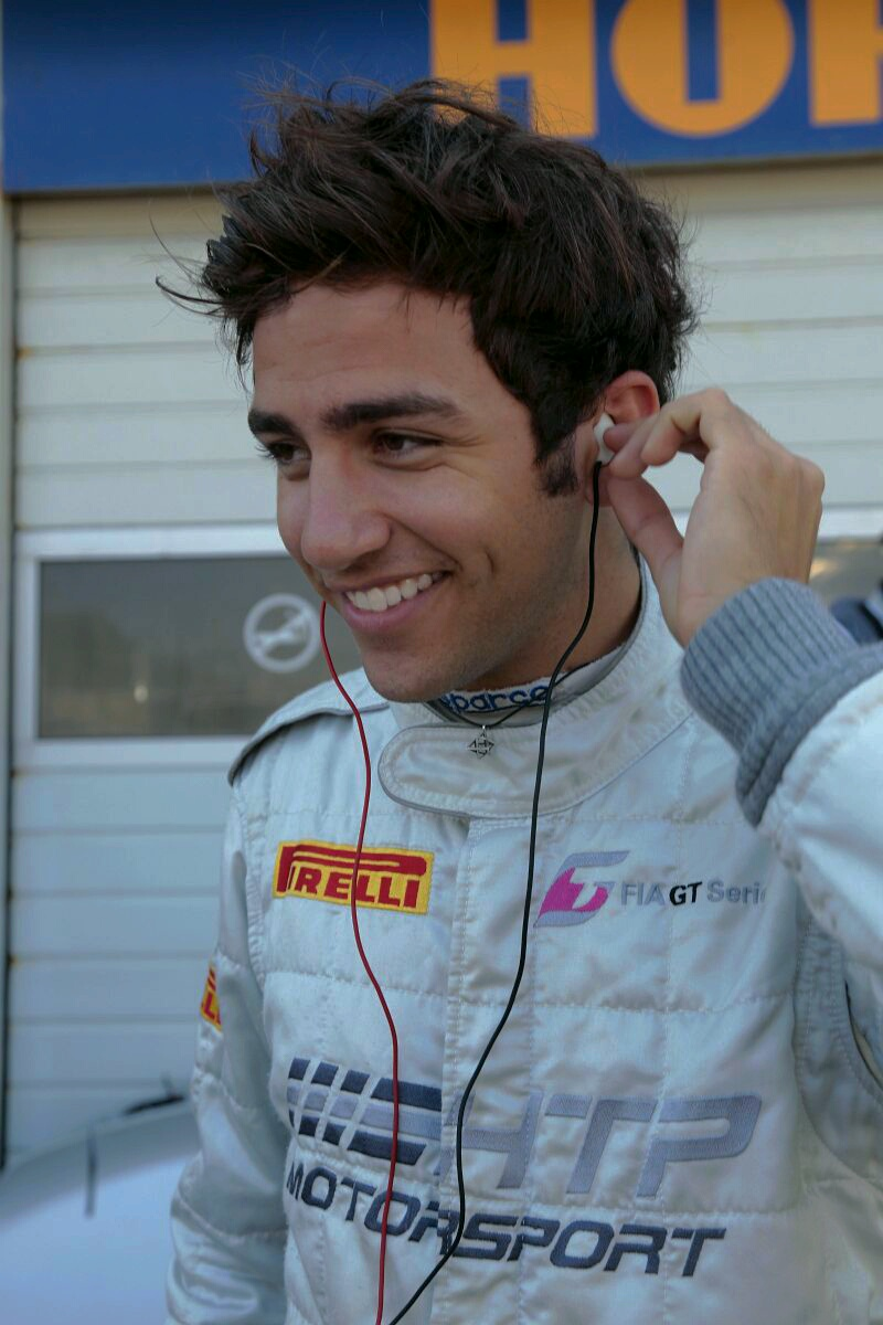 Alon day driving for HTP Motorsport